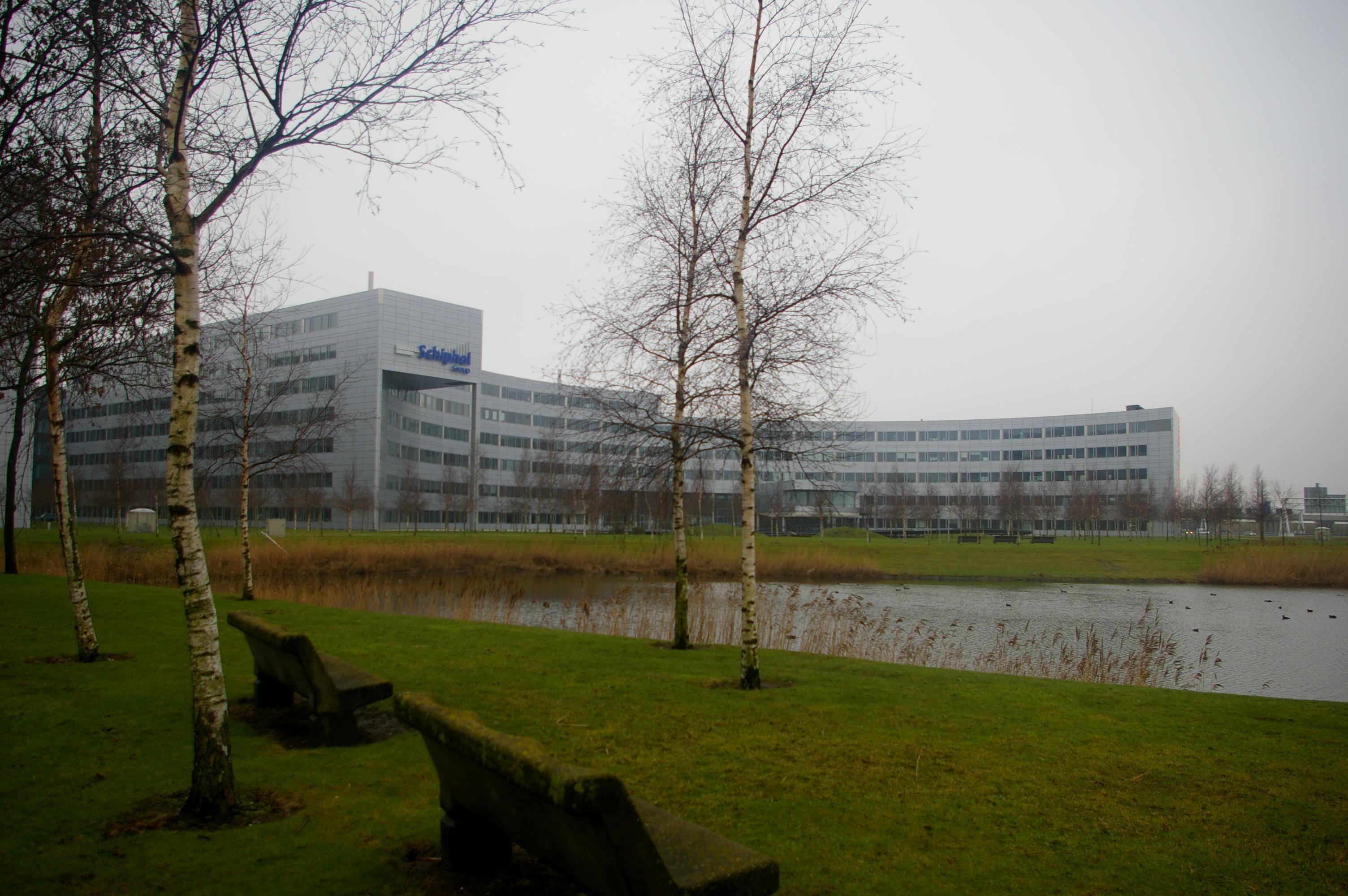 Schiphol Group offices, Schiphol, the Netherlands. Picture taken at the request of user WhisperToMe.